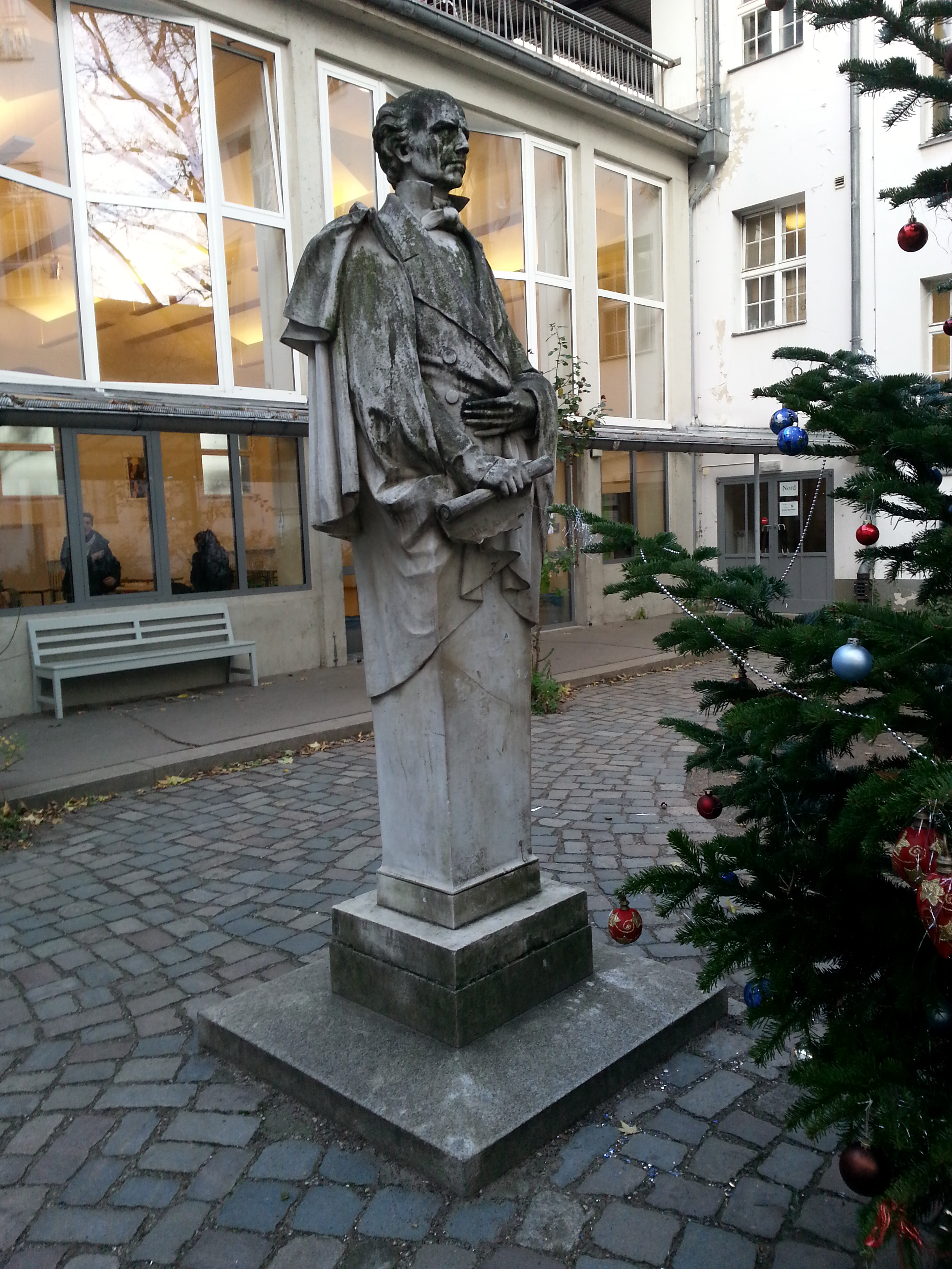 Leibniz Grammar School in Berlin - Uhland herm in the schoolyard in front of the western wing towards Mittenwalder Str.